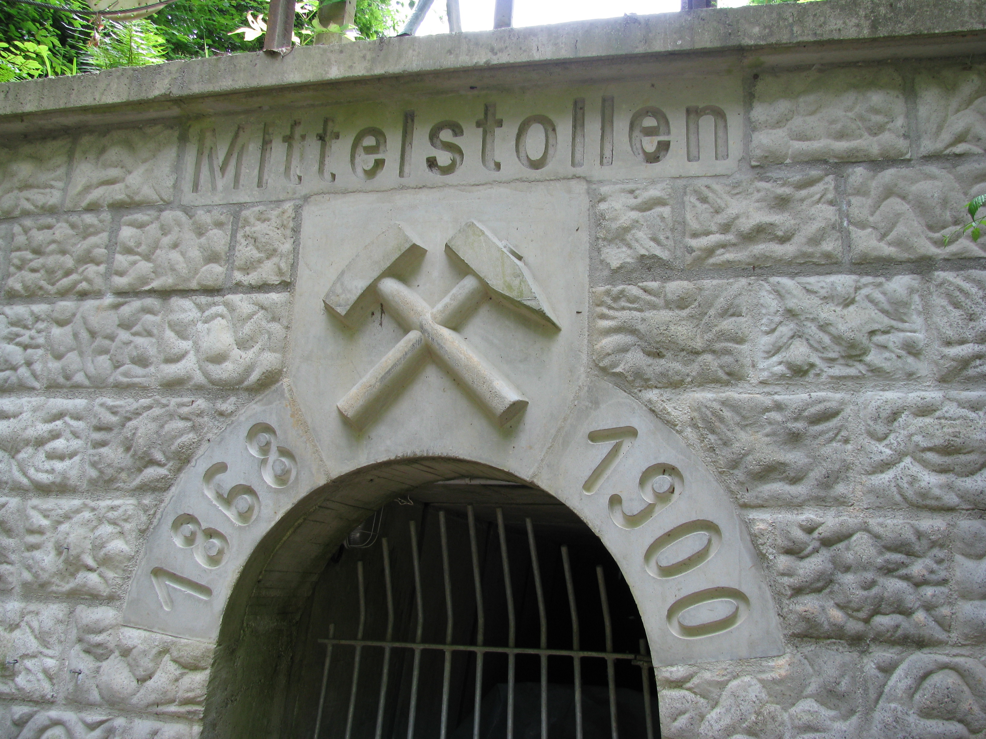 Mittelstollen in Peissenberg